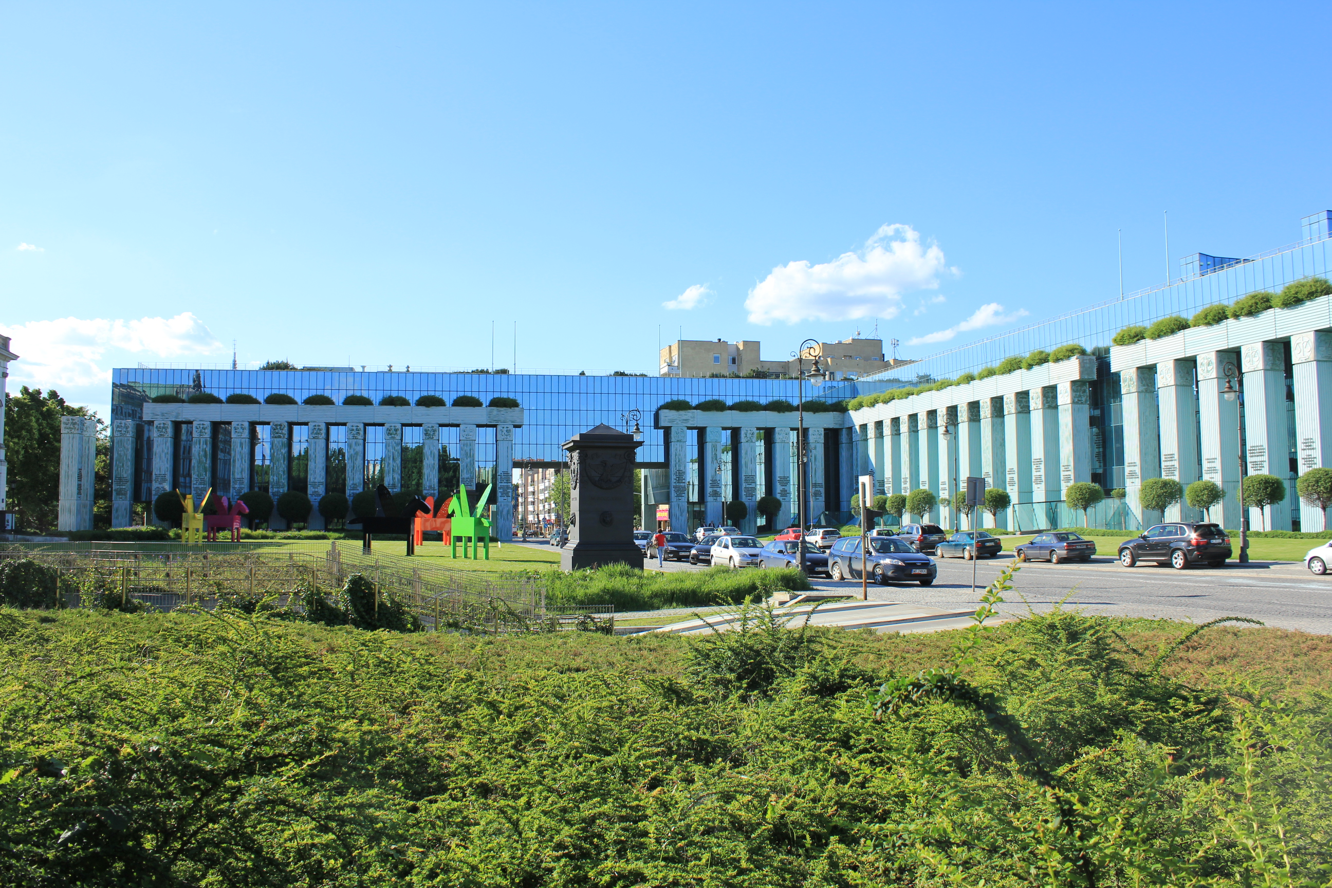 Supreme Court of Poland in Warsaw